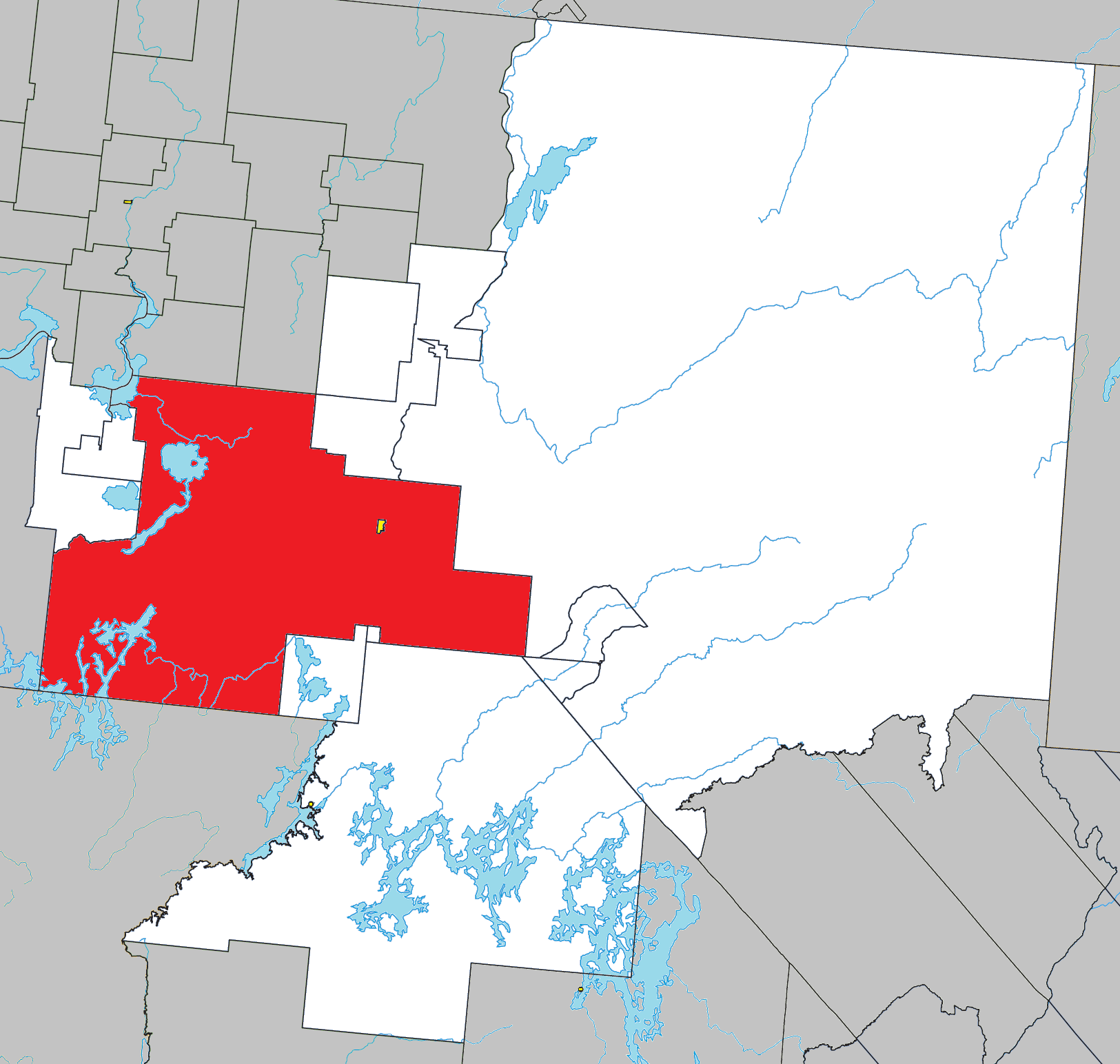 Location of Val-d'Or, Quebec within La Vallée-de-l'Or Regional County Municipality.